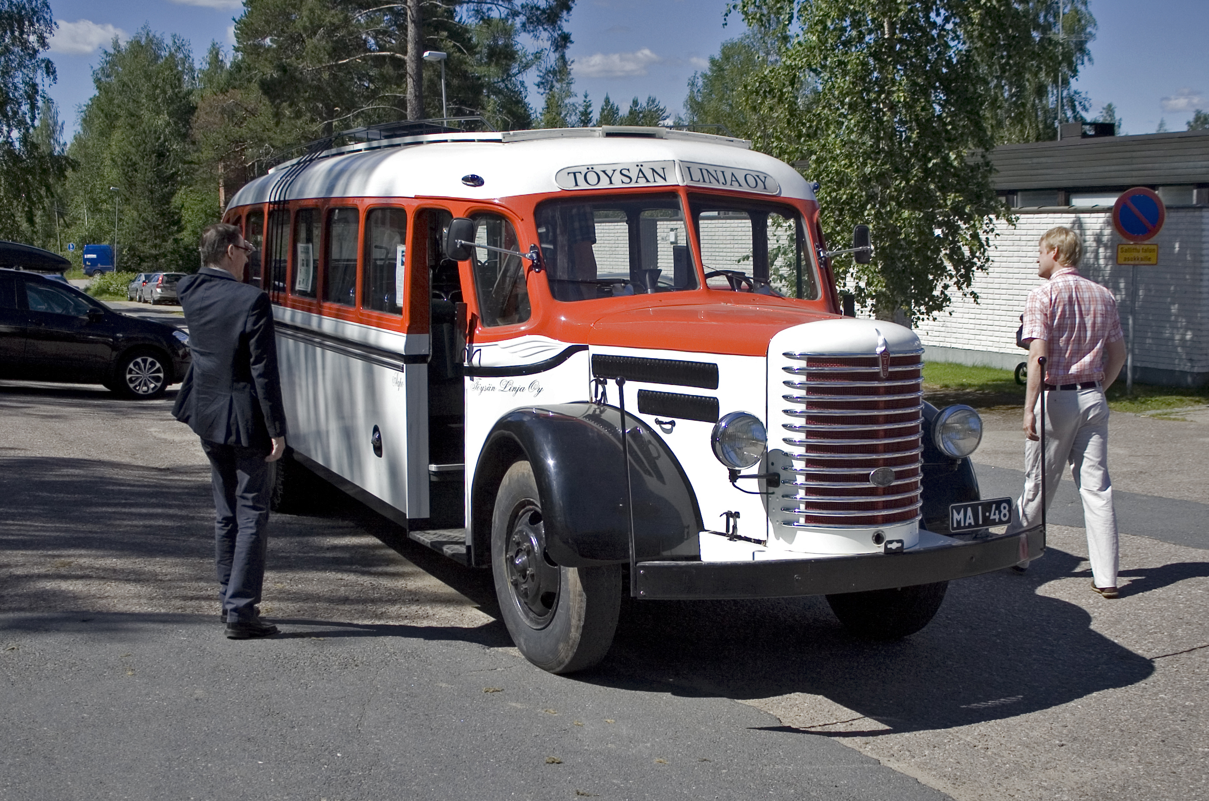 Sisu S-15, year 1948, Company: Töysän linja